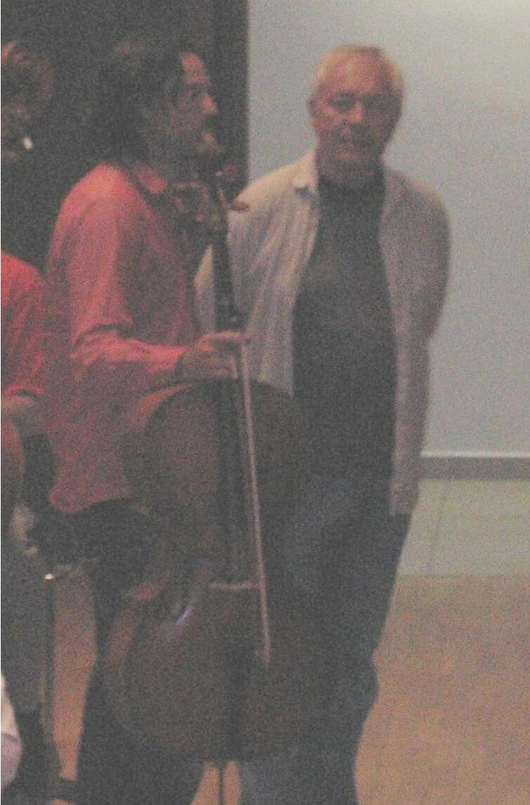 Czech dirigent Libor Pesek and czech violoncellist Jiri Barta. From general examination of Chamber Philharmonic Orchestra Pardubice, 27. 4. 2009. Own work. Modified lightness.